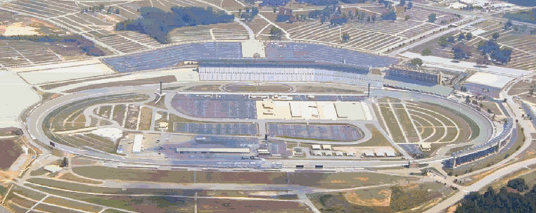 A picture of Atlanta Motor Speedway that I took in mid 2006 from my own Epic Victory.